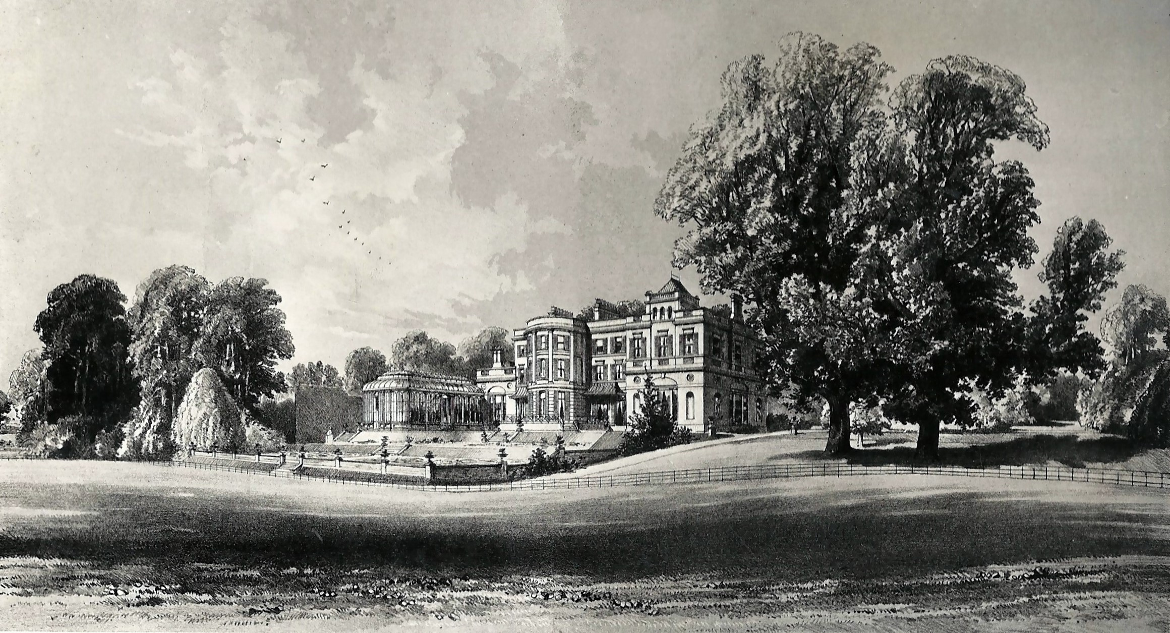 Little Grove published by Kell Brothers litho Castle Street, Holborn, London.